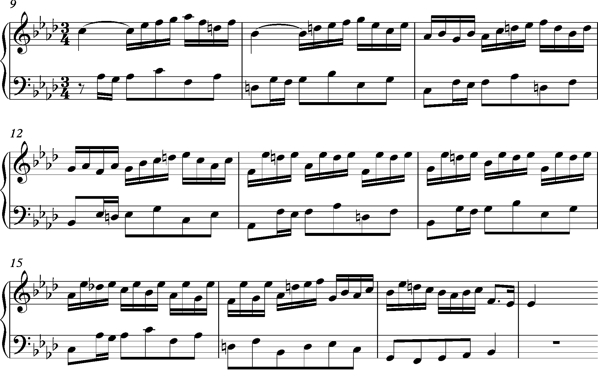 Bach Prelude in A flat from WTC1 bars 25-35